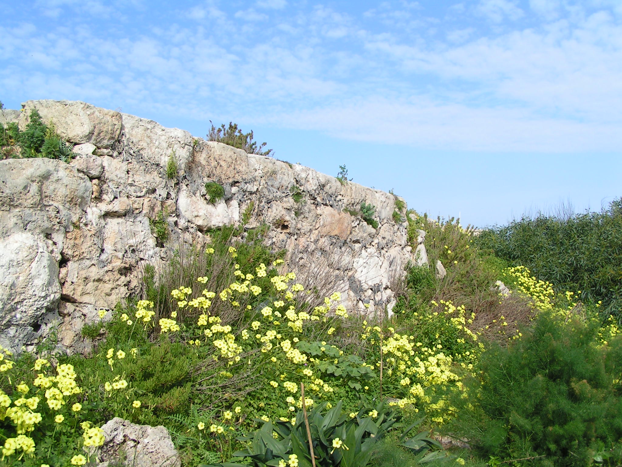 East battery wall This media is about Maltese cultural property with inventory number 01381.